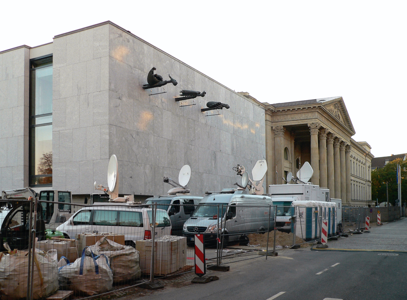 Evening of 2017 state elections in Lower Saxony: 'Landtag in Hannover', seat of parliament of Lower Saxony.